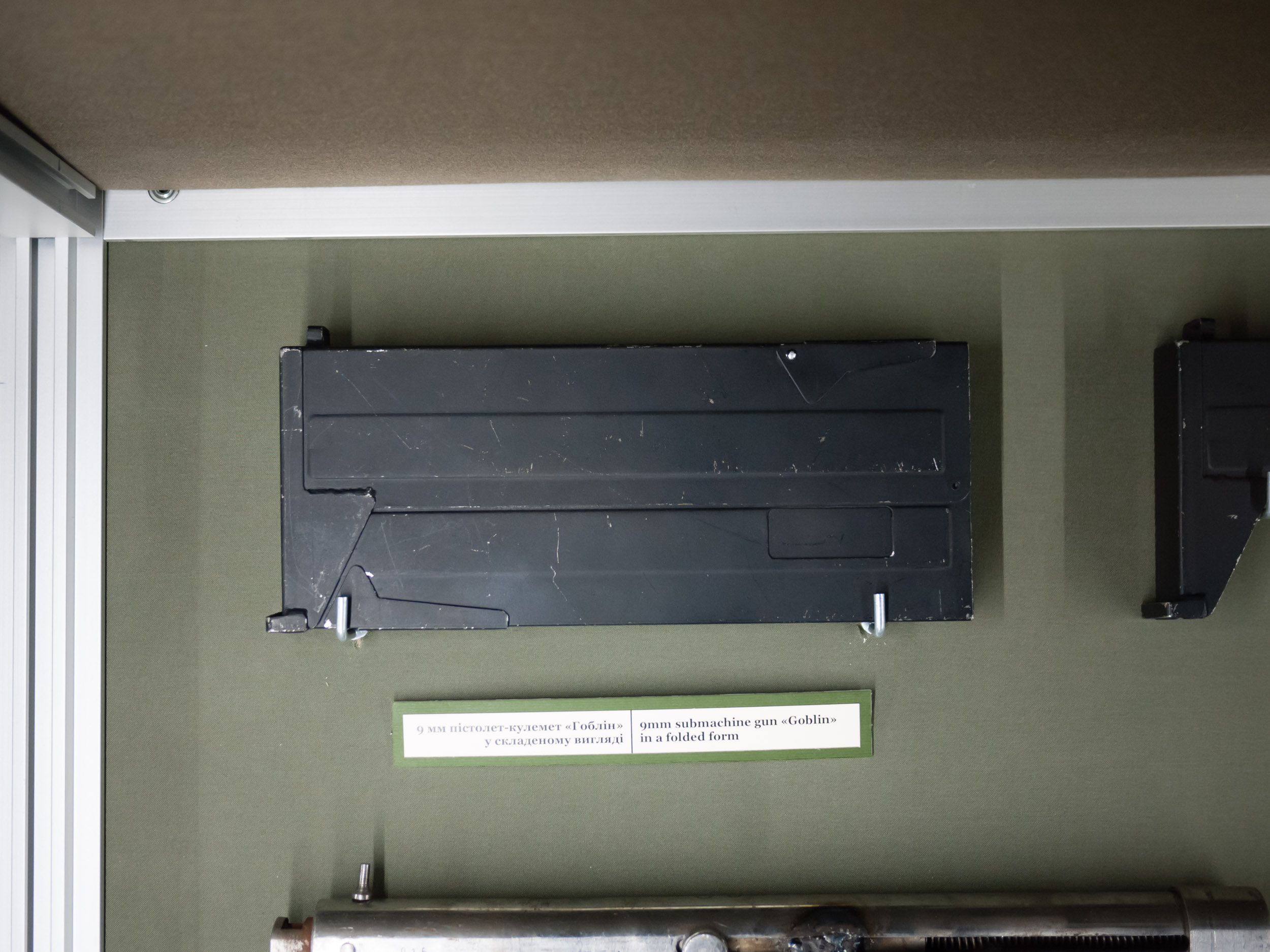 'Goblin' 9mm submachine gun, folded, by Ihor Oleksiyenko, National Military-Historical Museum of Ukraine